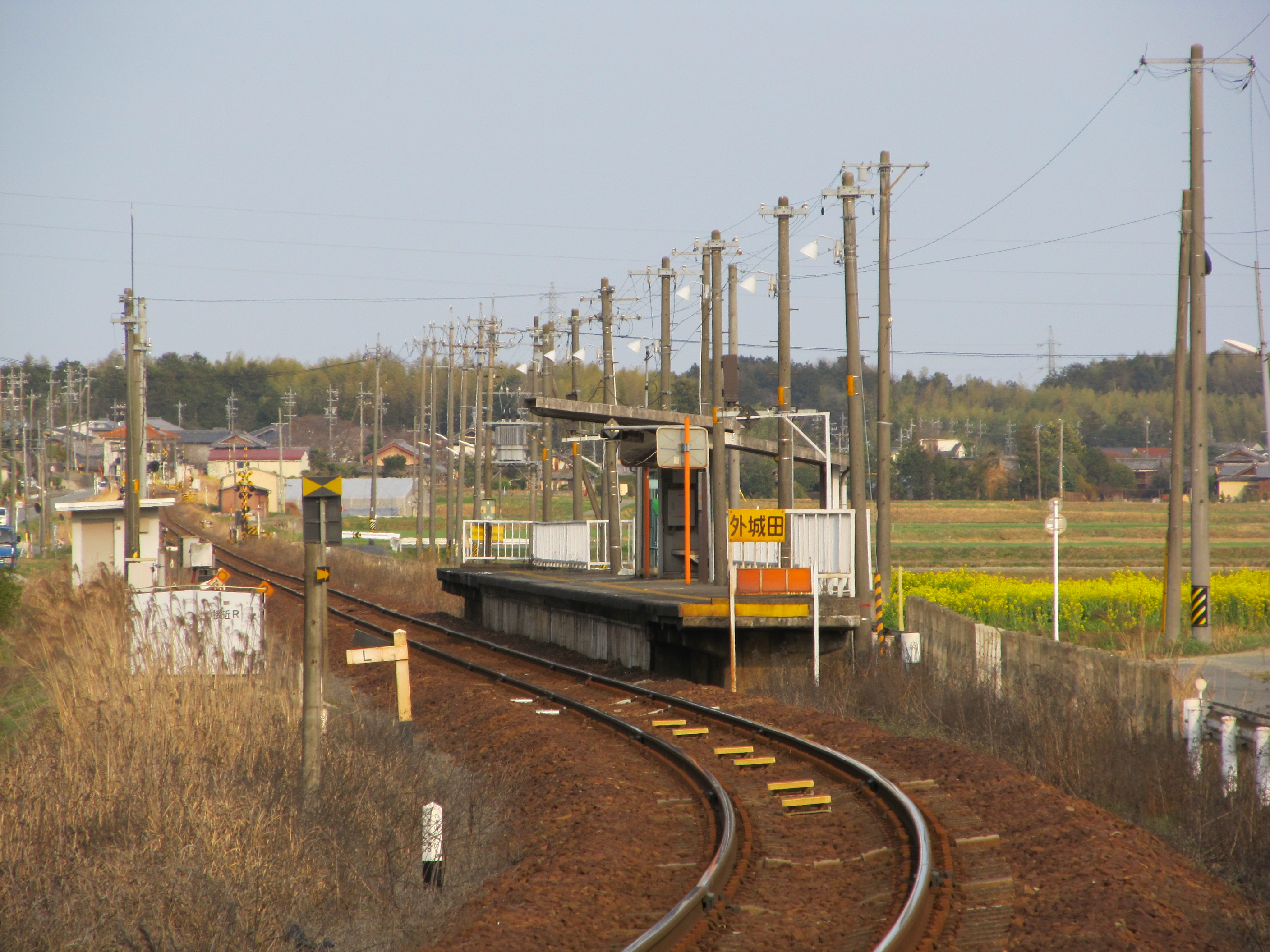 Central Japan Railway Sangū Line Tokida Station Platform